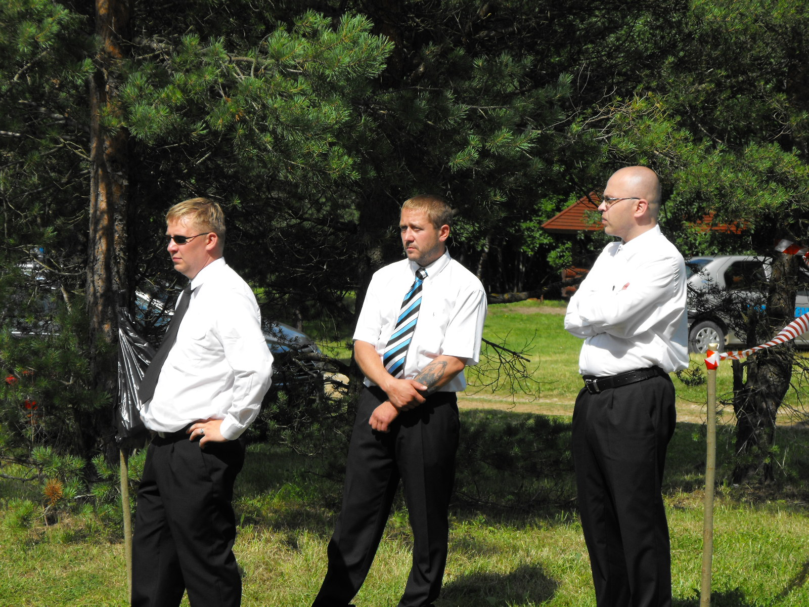 Memorial service on the 65th anniversary of the battles on the Sinimäed hills in 1944, where a number of veterans attended including including members of the W:20th Waffen Grenadier Division of the SS (1st Estonian).